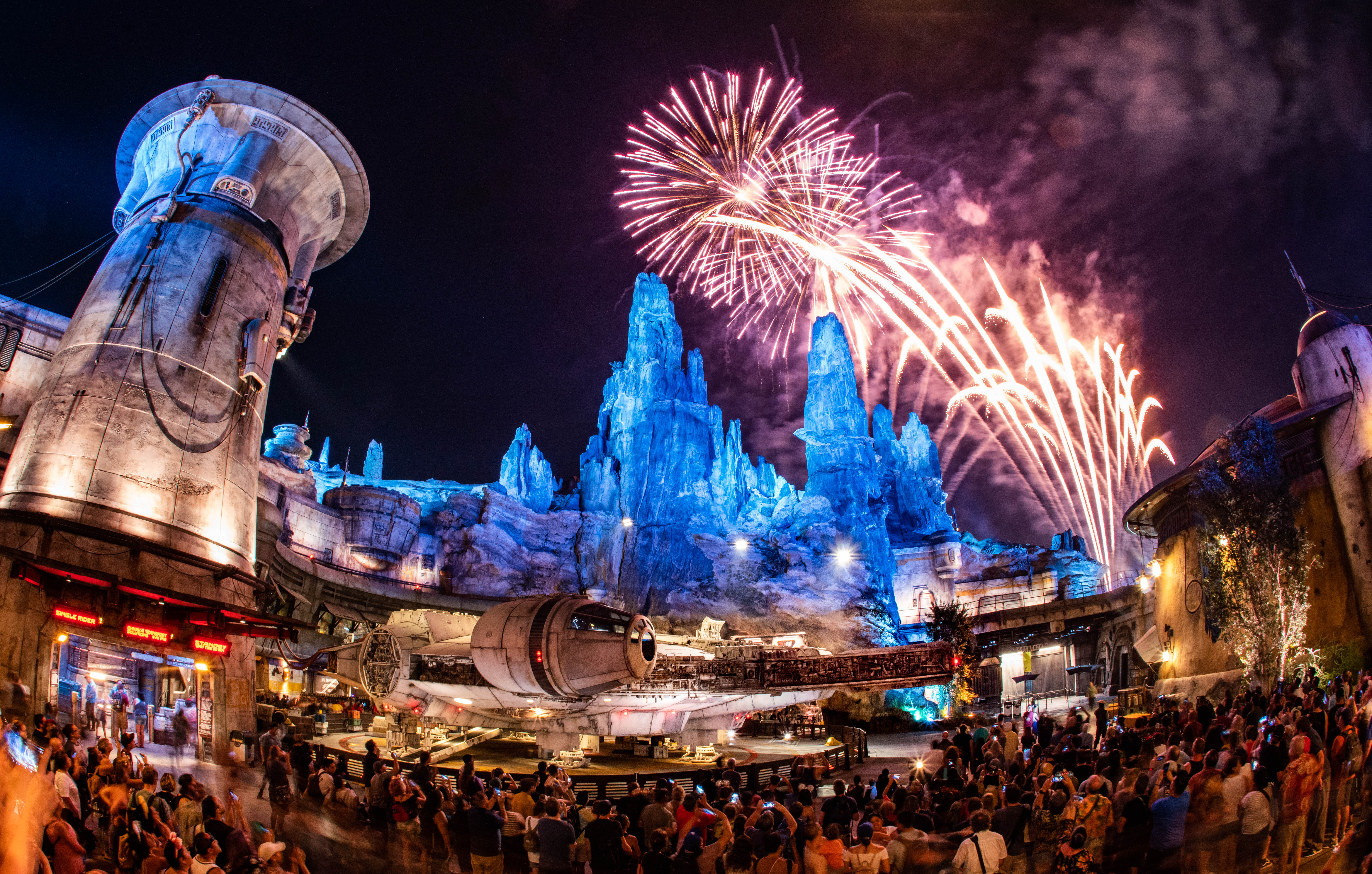 If you want to see a cool perspective of the fireworks at Disneyland make sure to stay in Star Wars: Galaxy's Edge because you get to watch the fireworks they fire behind Sleeping Beauty's Castle from the park to get some cool photos. Check out my video tour here